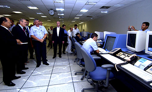 Defense Secretary Donald H. Rumsfeld receives a tour of the Amazon Surveillance System (Sistema de Vigilância da Amazônia SIVAM) complex from Maj. Gen. Pinheiro in Manaus, Brazil, March 23, 2005. SIVAM is a ground and air surveillance system that provides Brazil the capability to detect forest fires, illegal mining and deforestation in the Amazon region. In addition to such environmental benefits, SIVAM also serves various military purposes, including the ability monitor air space and detect illegal drug trafficking flights.